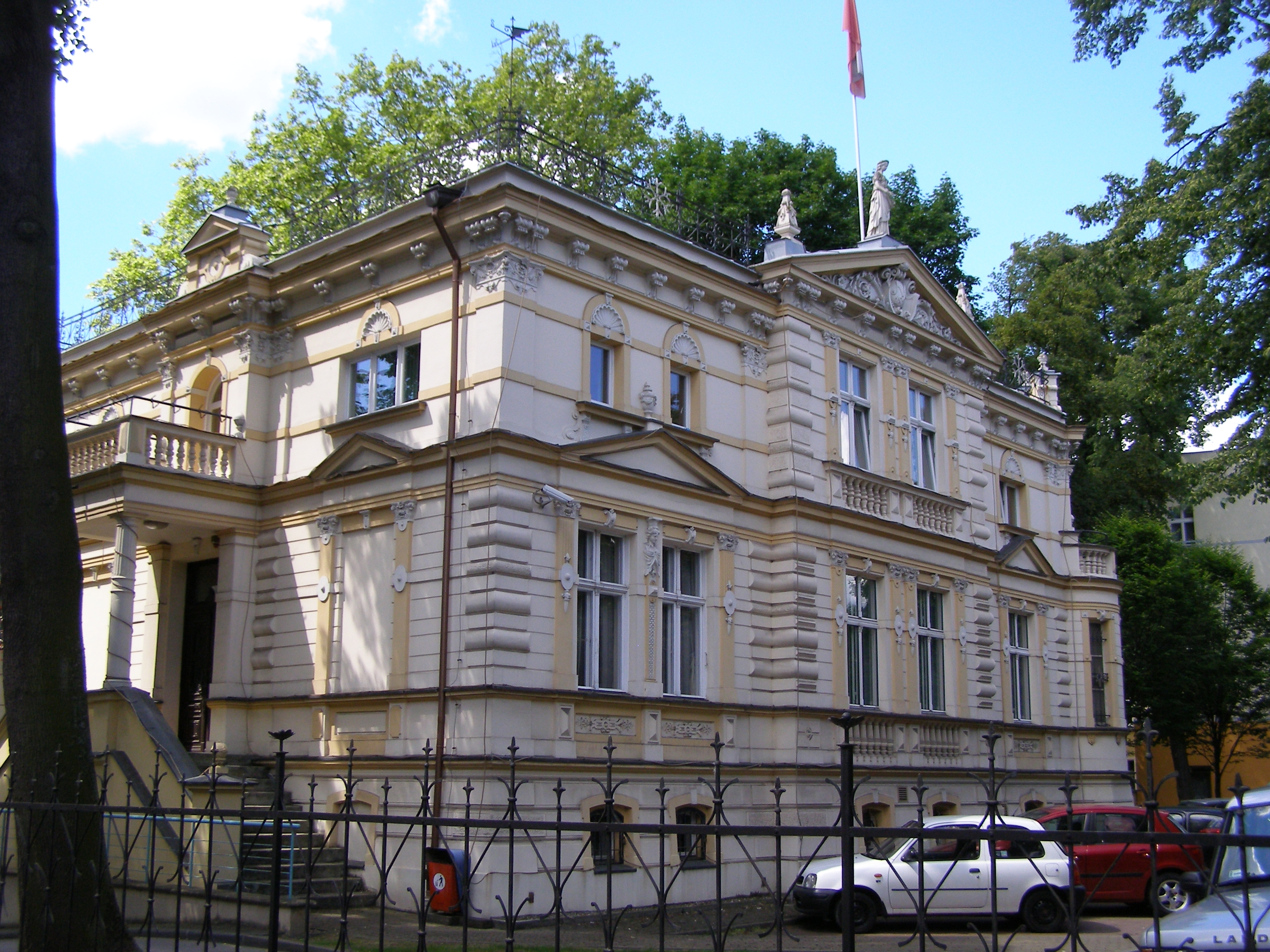 Gdańsk - Radio Gdańsk building at 18 Grunwaldzka av.